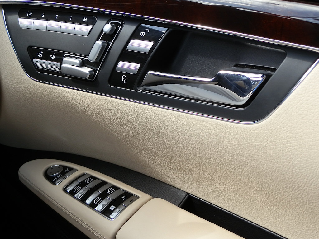 Picture showing the driver's door in a right hand drive 2007 S500 Mercedes-Benz W221, showing the electric seat controls with memory, door lock buttons and the controls for the electric windows, mirrors and boot lid.